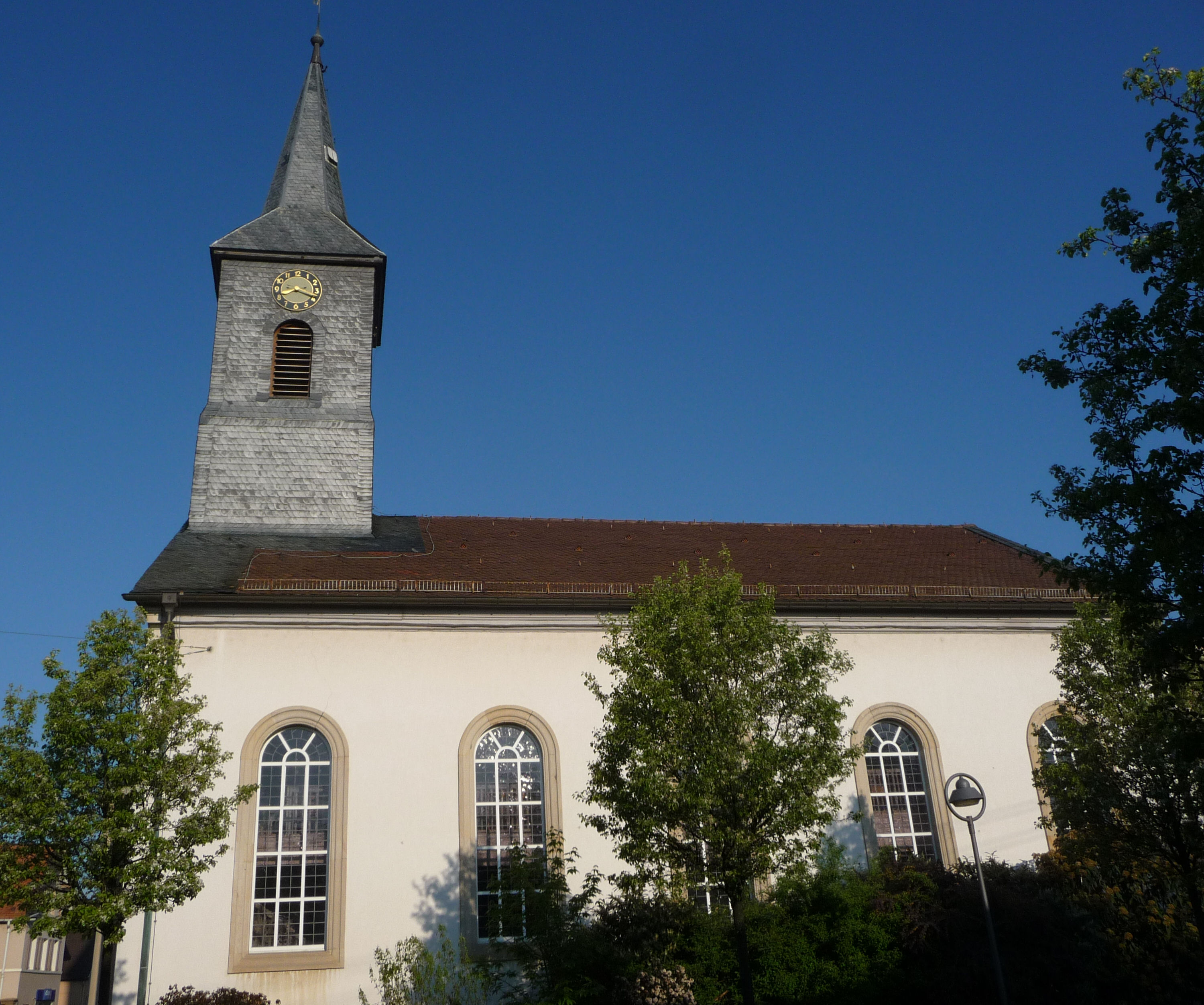 Protestant church in Ludwigshafen-Ruchheim, Germany